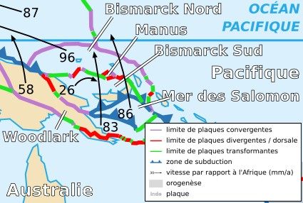 Map of the South Bismarck Plate